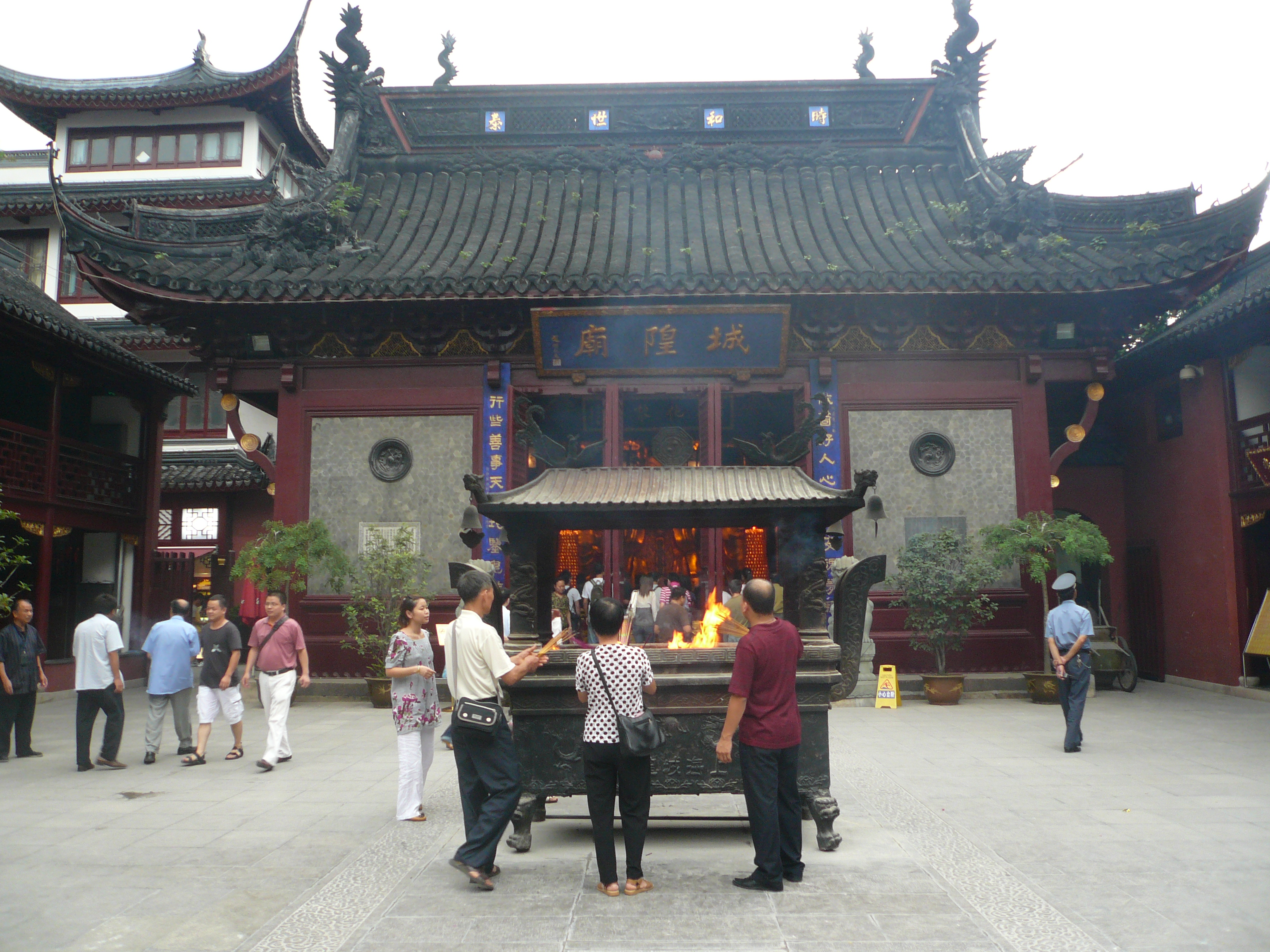 The Chenghuang Miao (City God Temple) in Shanghai, China. The temple's surrounding area and vicinity is a largely commercial district that hosts an array of shops, restaurants, teahouses, as well as annual temple fair events.